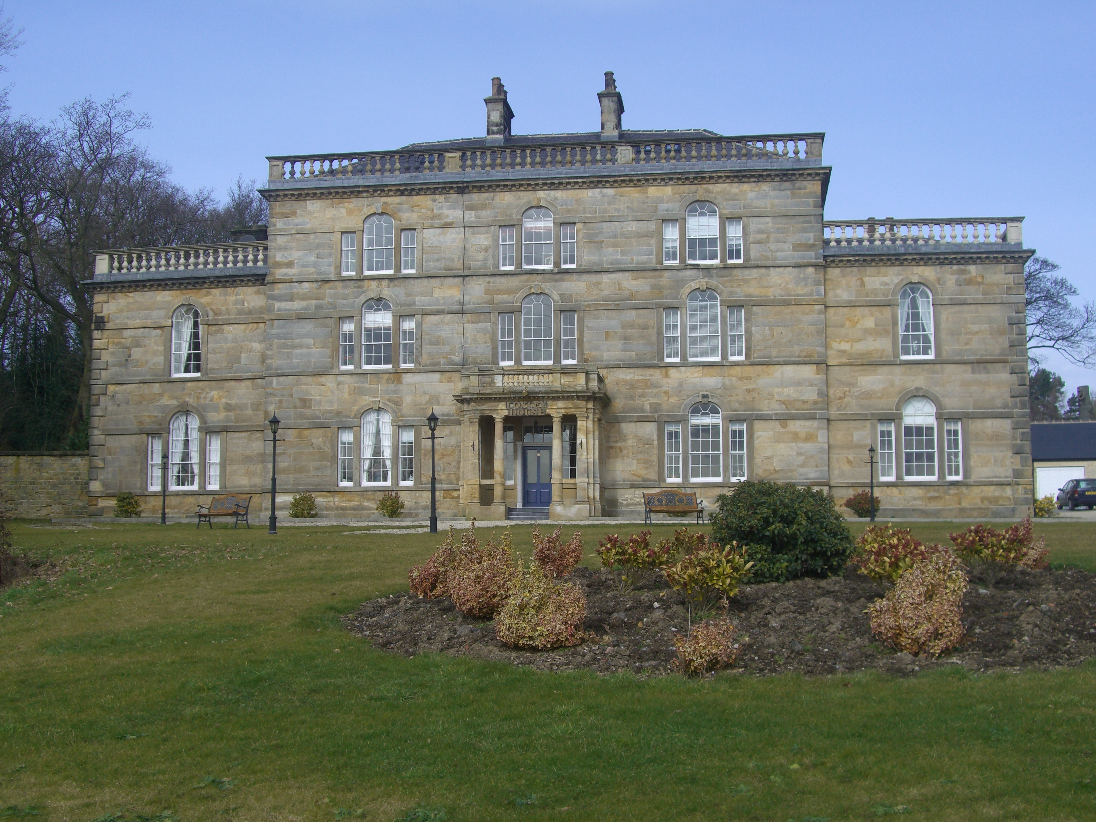 Loxley House in the Sheffield suburb of Wadsley